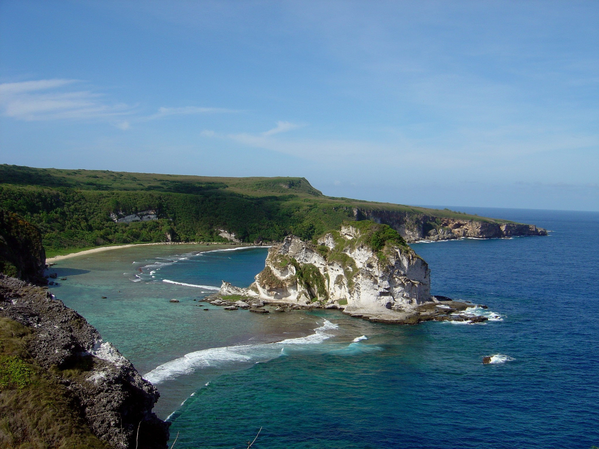 Bird Island, Saipan. Commonwealth of Northern Mariana Islands, Saipan.